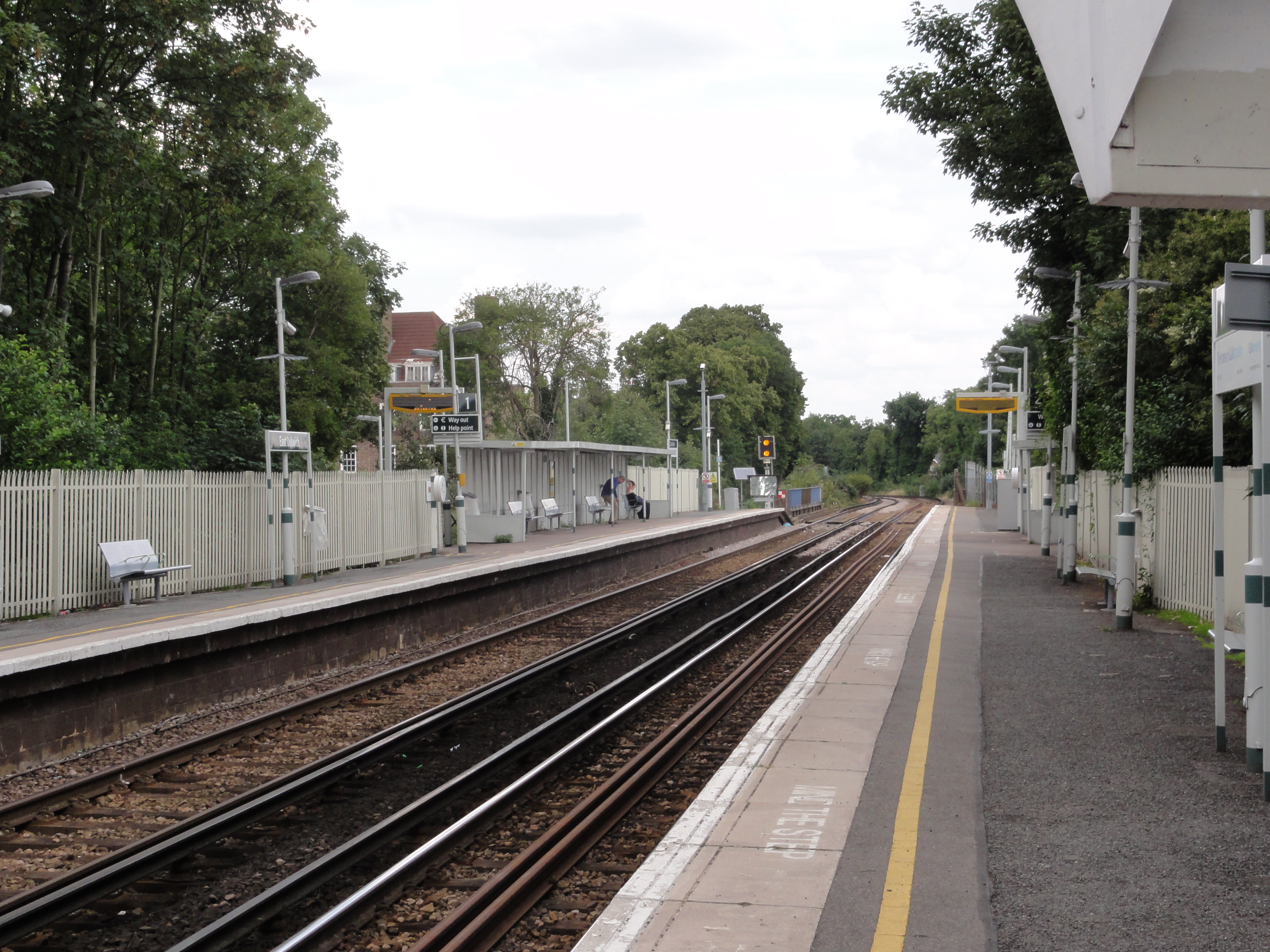 Platform 2 for trains heading South away from London.